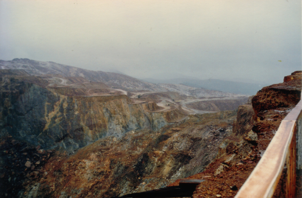 Queenstown picture of former mining area in the Mount Lyell open-cut, (not in any way representative of effects of mining away from the actual mine, it is a photo of a former mining area). Picture taken on Armistead/Coghlan family holiday.